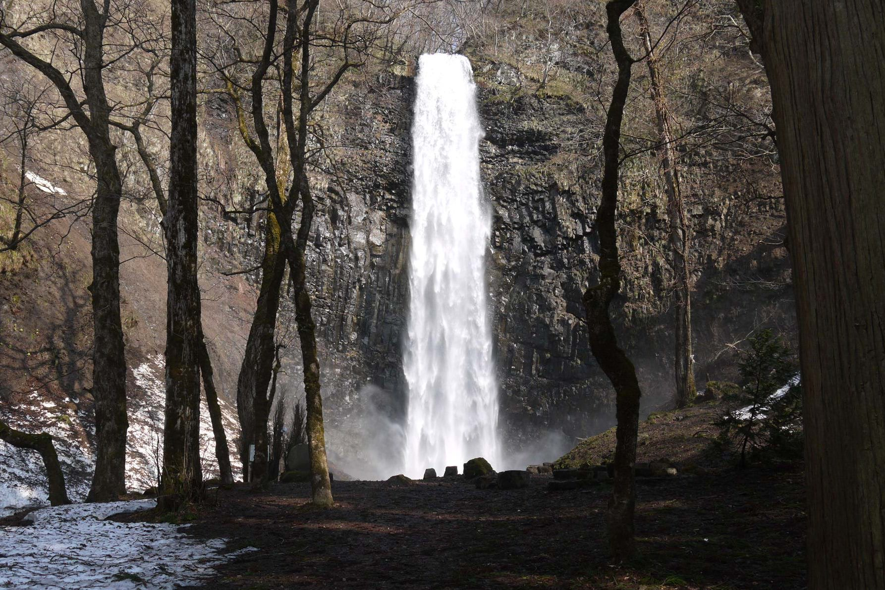 Tamasudare Falls in Sakata, Yamagata Prefecture, Japan.